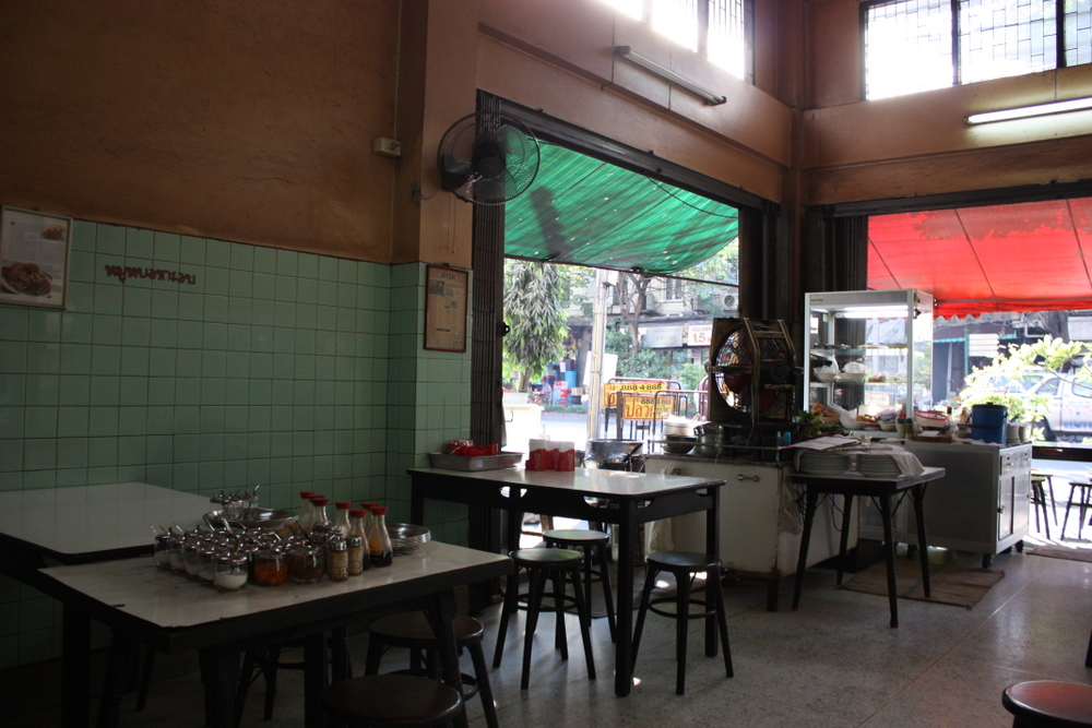 Interior of the Jay Fai restaurant in Bangkok